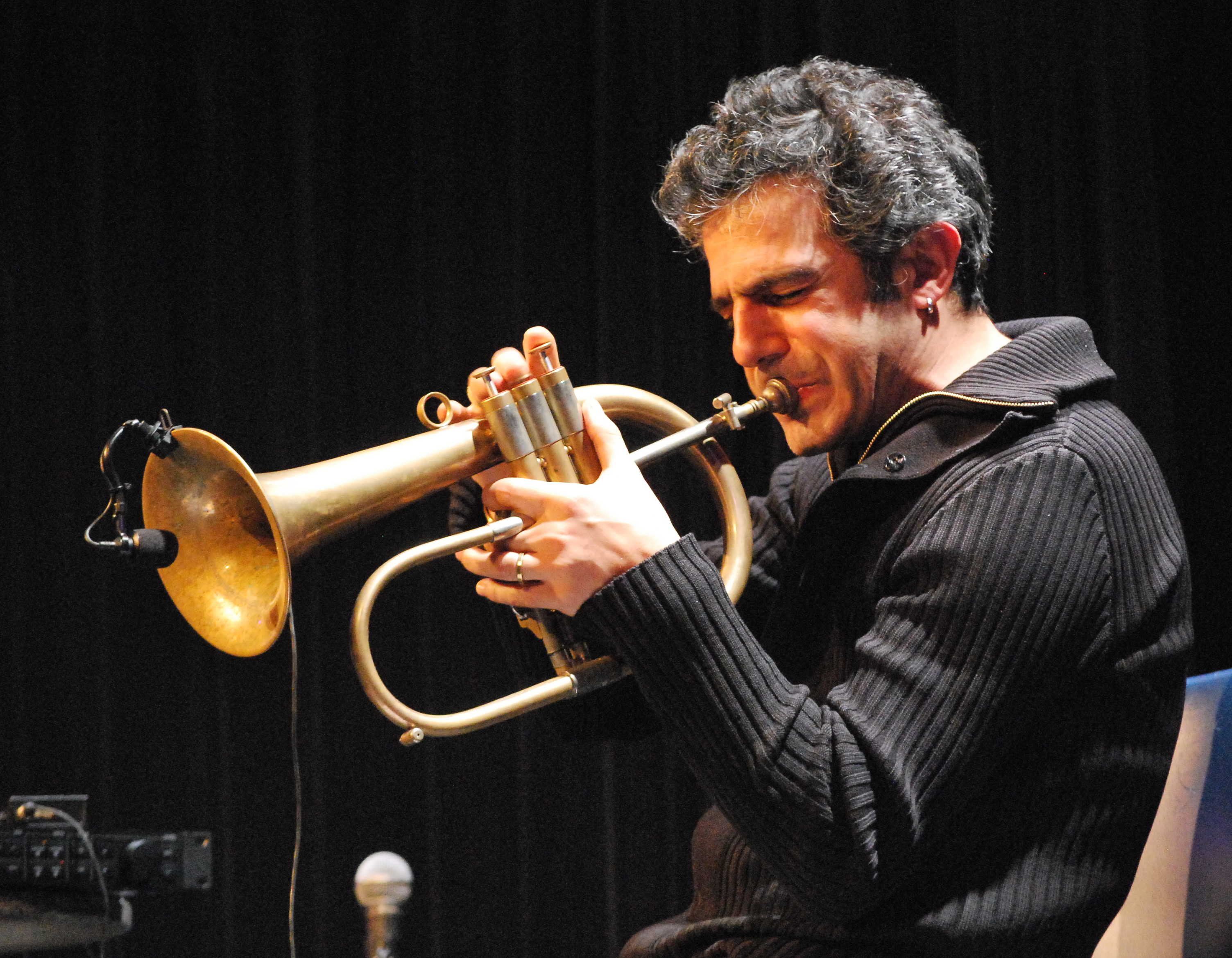 Paolo Fresu at a concert with Ralph Towner, Treibhaus Innsbruck 2010